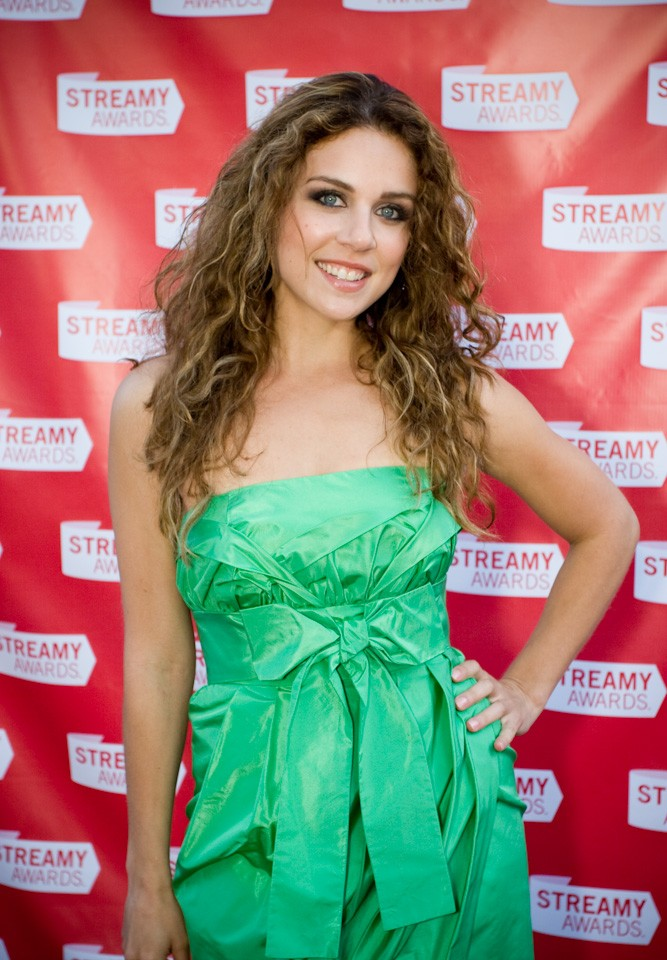 Melanie Merkosky at the 1st Streamy Awards in 2009.